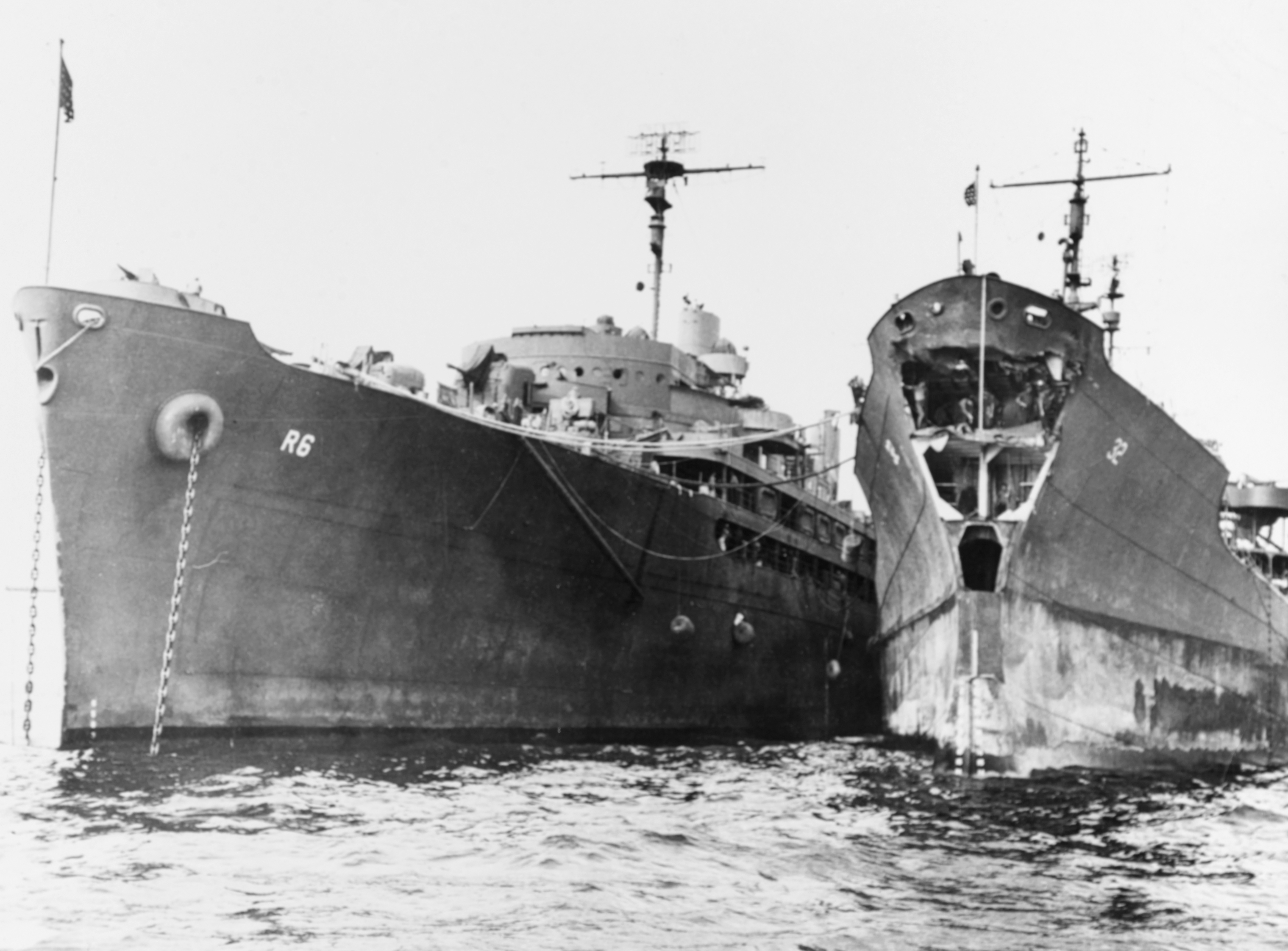 The U.S. Navy repair ship USS Ajax (AR-6) repairing the fleet oiler USS Guadalupe (AO-32) at Ulithi, 9 February 1945. The oiler had been damaged in a collision with USS Nantahala (AO-60) on the night of 9–10 January 1945.